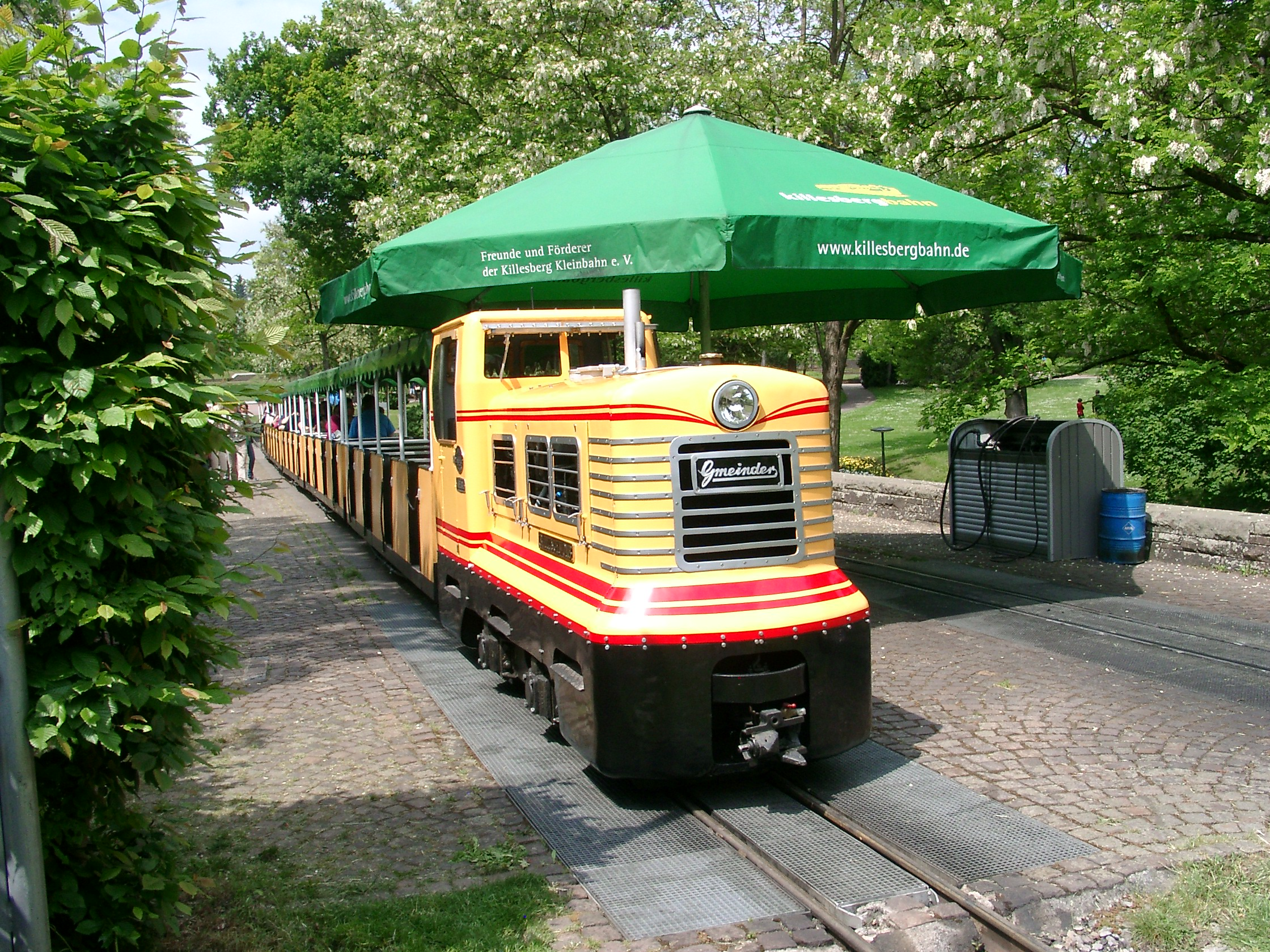 Blitzschwoab, Locomotive